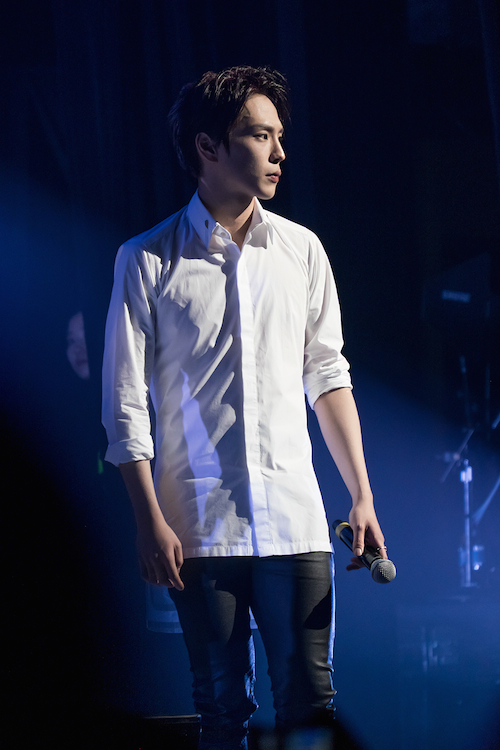 During Live On Earth 2014 Chicago Attack